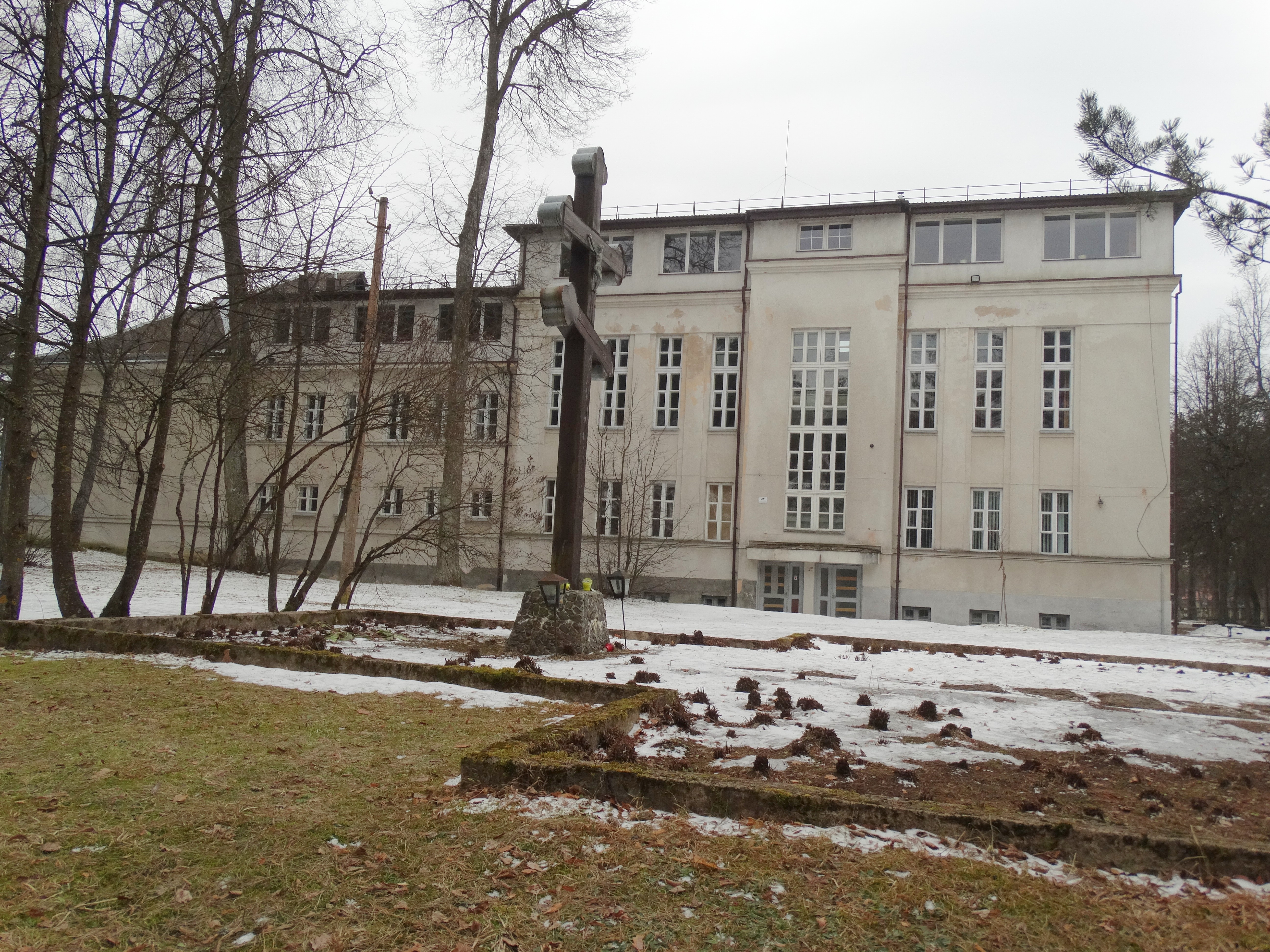 Memorial Orthodox cross, Švenčionėliai, Lithuania